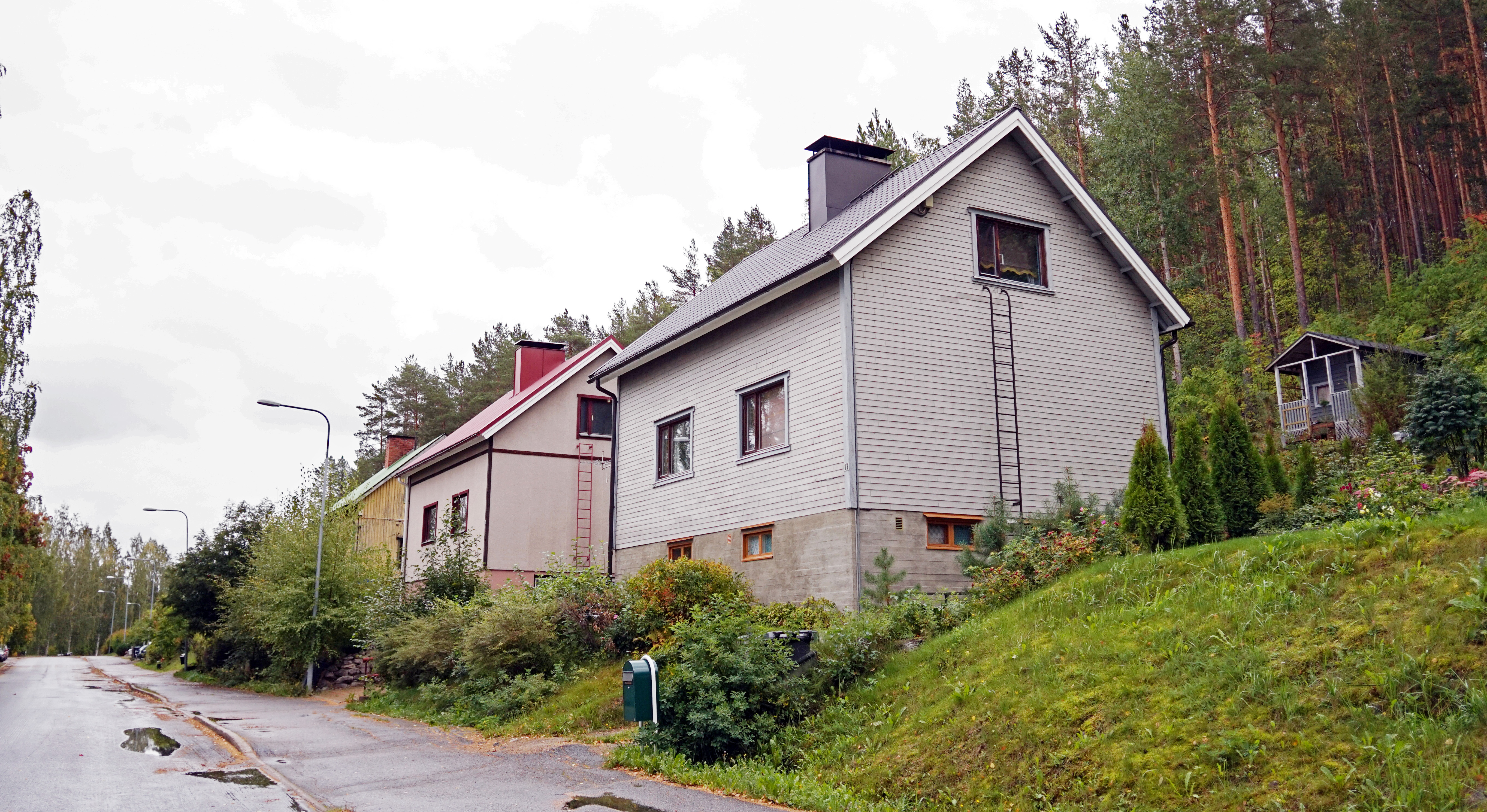 Haikantie in Muuratsalo, Jyväskylä.